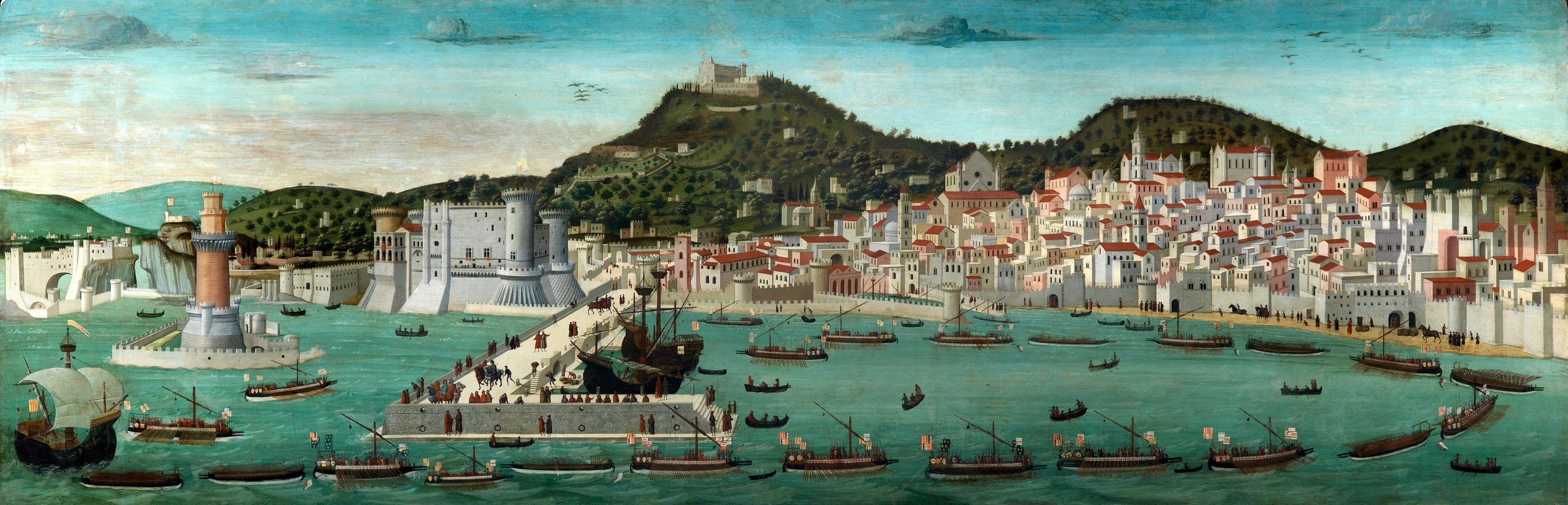 Tavola Strozzi, view of the city of Naples in Italy from the sea, 1470. (Alfonso V of Aragon naval victory on John of Anjou). Museo di San Martino, Naples, Italy.